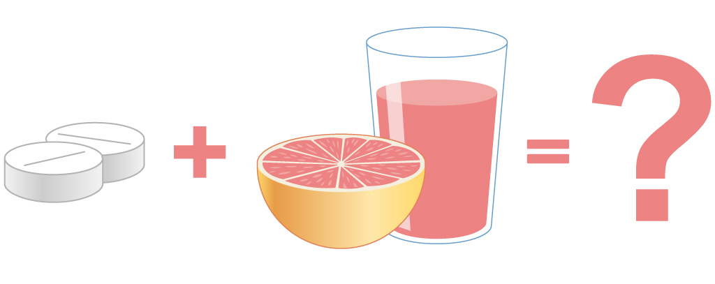 Grapefruit juice can affect how well some medicines work, and it may cause dangerous side effects. Read this FDA Consumer Update: Consumer Updates are a quick and easy way to pick up important health information for you and your family. For a complete list of Consumer Updates see the Consumer Updates photo set: For the latest Consumer Updates go to: This graphic is free of all copyright restrictions and available for use and redistribution without permission. Credit to the U.S. Food and Drug Administration is appreciated but not required. For more privacy and use information visit: FDA graphic by Michael J. Ermarth